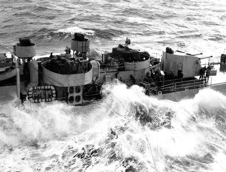 Photo #: NH 96847 - USS Massey (DD-778) - Alongside USS Leyte (CV-32) to refuel during "Operation Frigid" cold weather underway replenishment activities in the North Atlantic, 12 November 1948. The towing cable, used to maintain spacing between the ships, has already been rigged. Messenger lines are visible in lower center. These are employed to bring across telephone lines, refueling hoses and heavier cables that will be used to exchange mail and cargo.